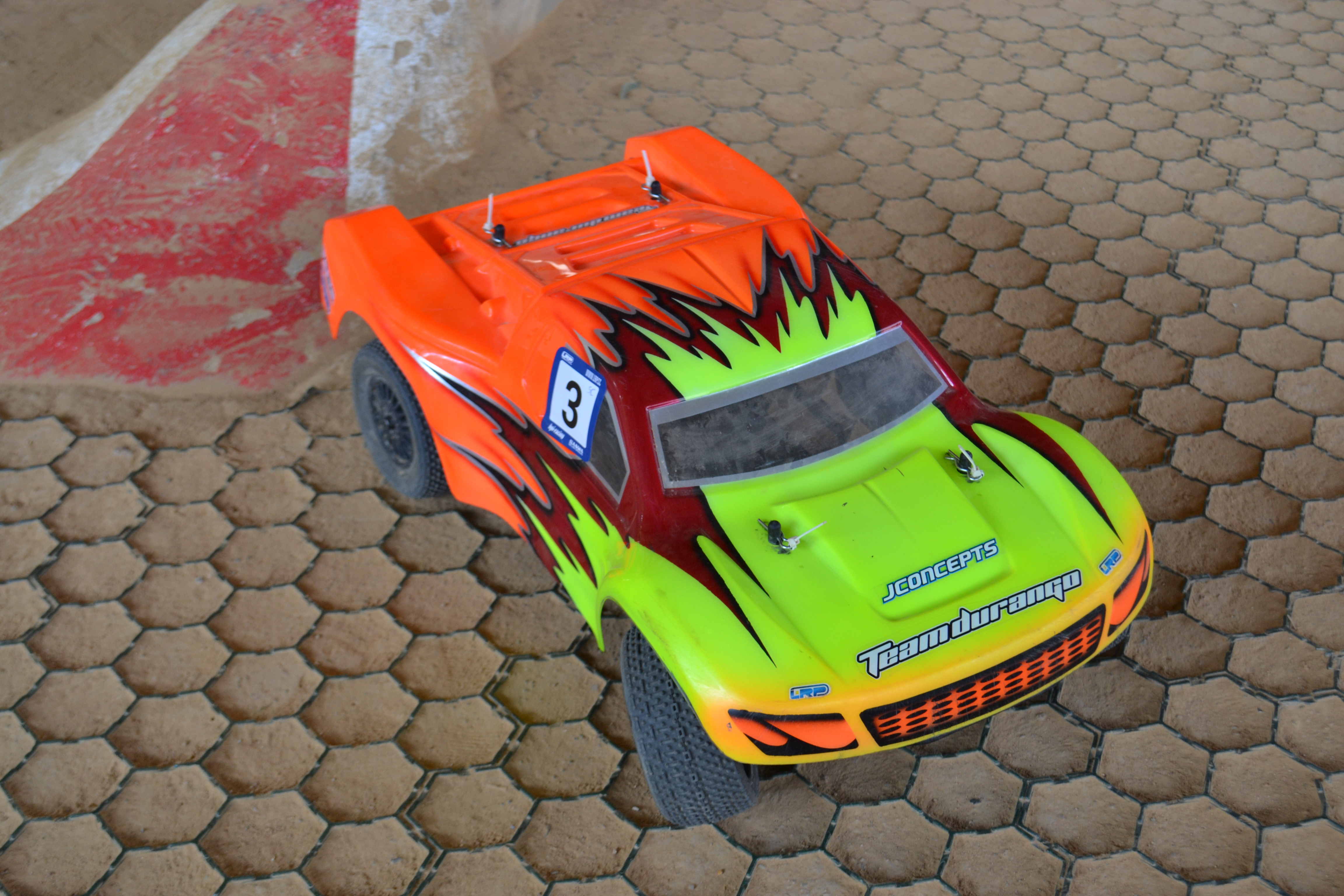 LRP-Offroad-Challenge Short Course (Durango)